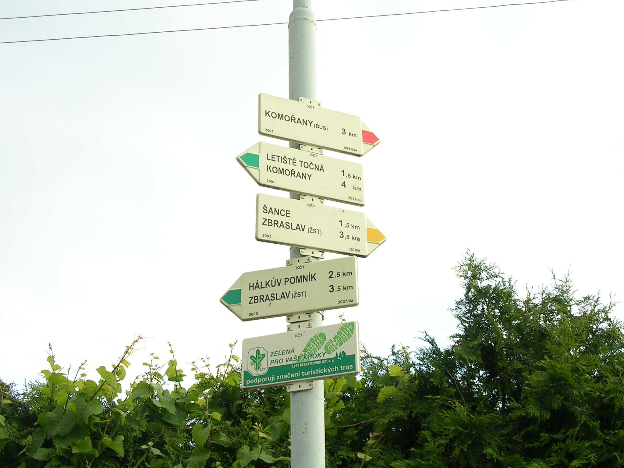 Točná, Prague, the Czech Republic. Hiking signs.